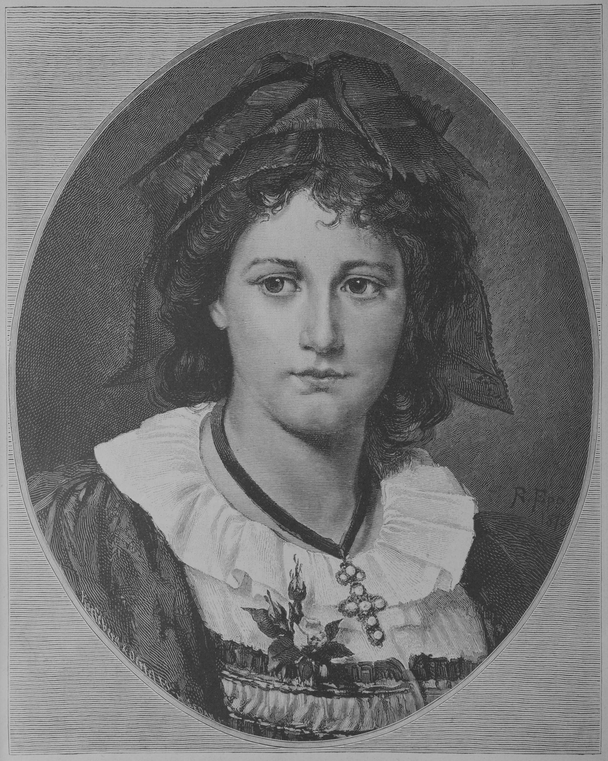 caption: "Album schöner Frauenköpfe: 2. Schwarzwälder Bauernmädchen. Nach dem Oelgemälde von R. Epp."